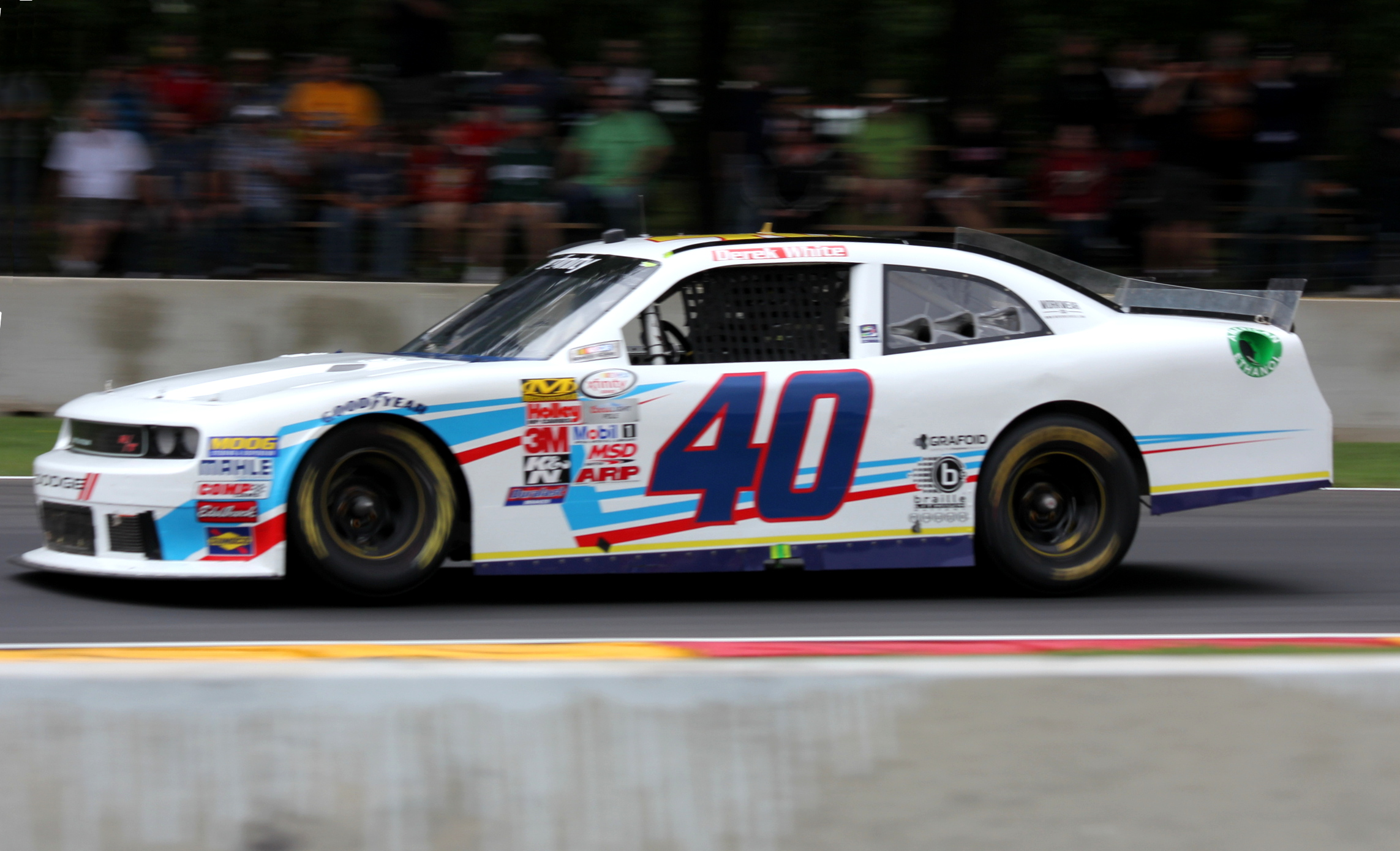 The NASCAR Xfinity Series car of Derek White turning left in Turn 6 at Road America.